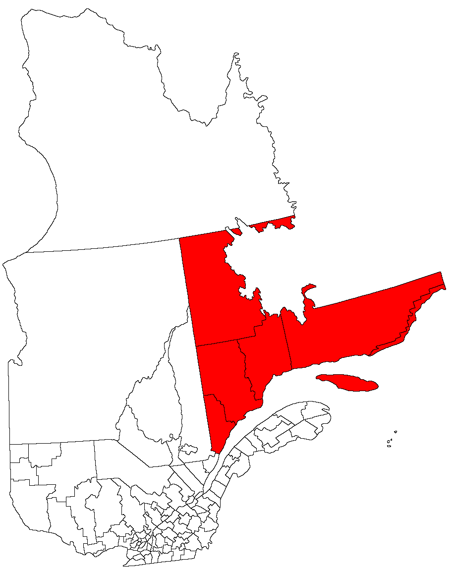 Côte-Nord region, Quebec